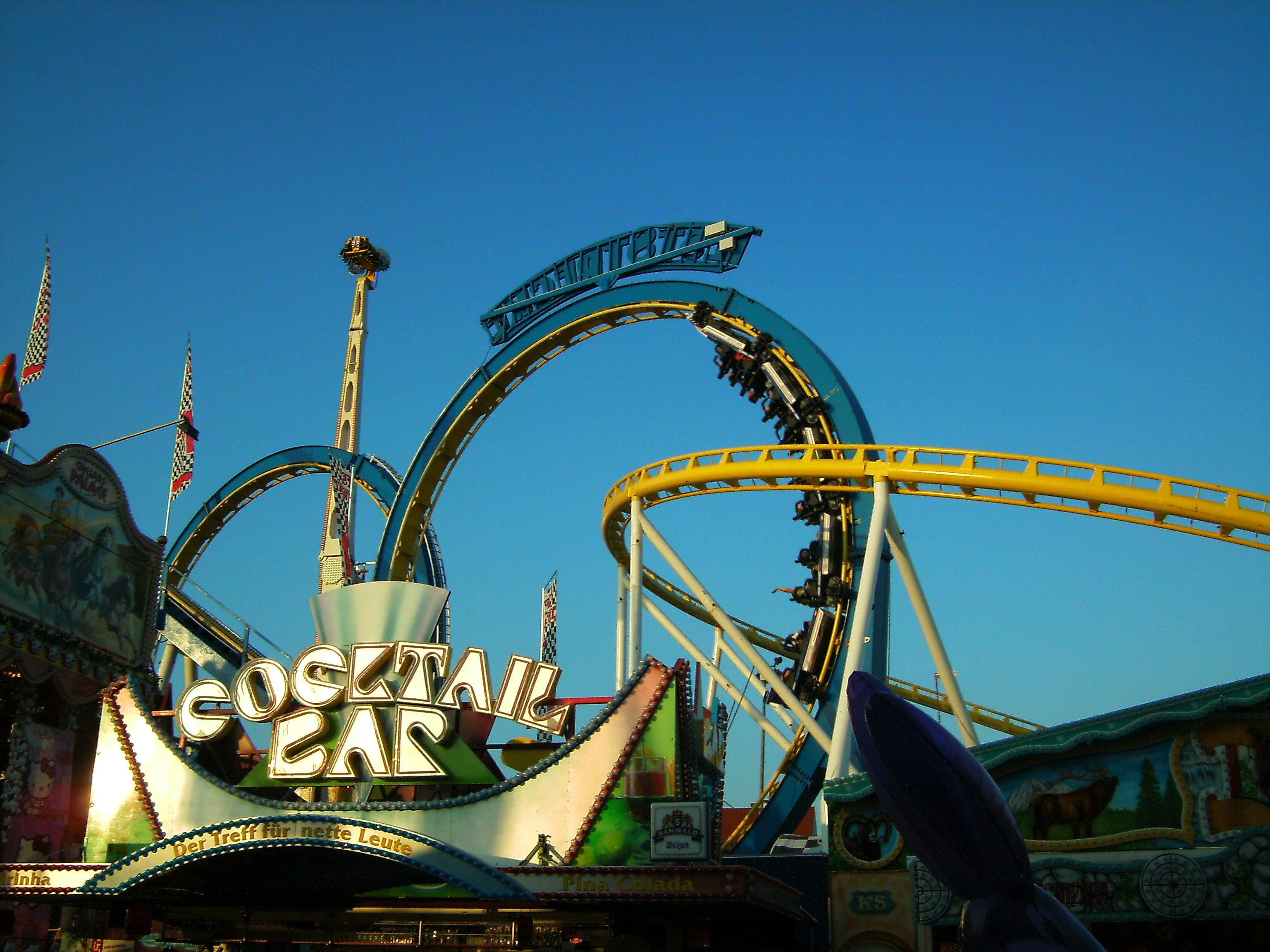 Looping roller coaster "Teststrecke", the first looping roller coaster since several years on Cannstatter Wasen